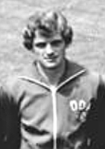 Title: Olympiade, DDR-Fußball-Nationalmannschaft Factual corrections and alternative descriptions are encouraged separately from the original description. Additionally errors can be reported at this page to inform the Bundesarchiv. Original historic description: ...Frank Uhlig ...